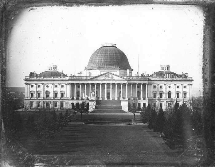 United States Capitol, Washington, D.C., east front elevation, digital file from a black and white film copy negative, pre-1992, of a half plate daguerreotype)